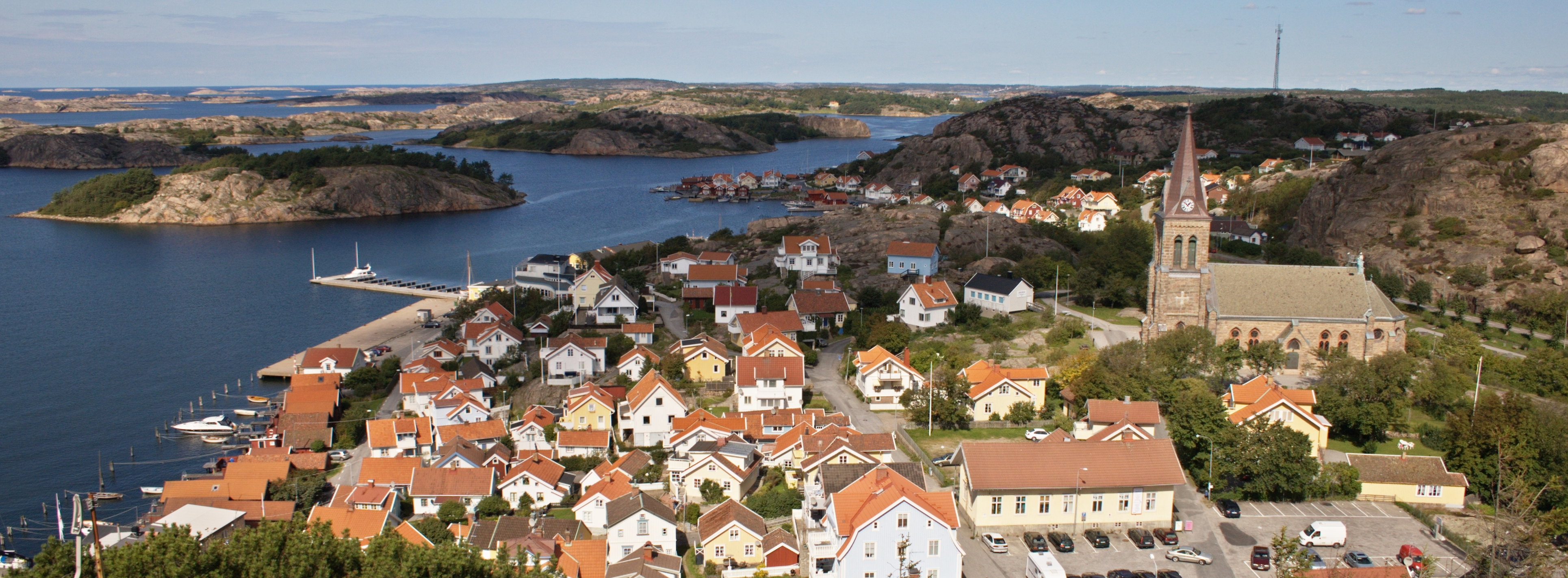 Fjällbacka (Sweden) as seen from Vetteberget.